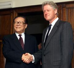 Presidents Jiang Zemin of China and Bill Clinton of the U.S. on September 11, 1999. U.S. government photo taken by David Scull.